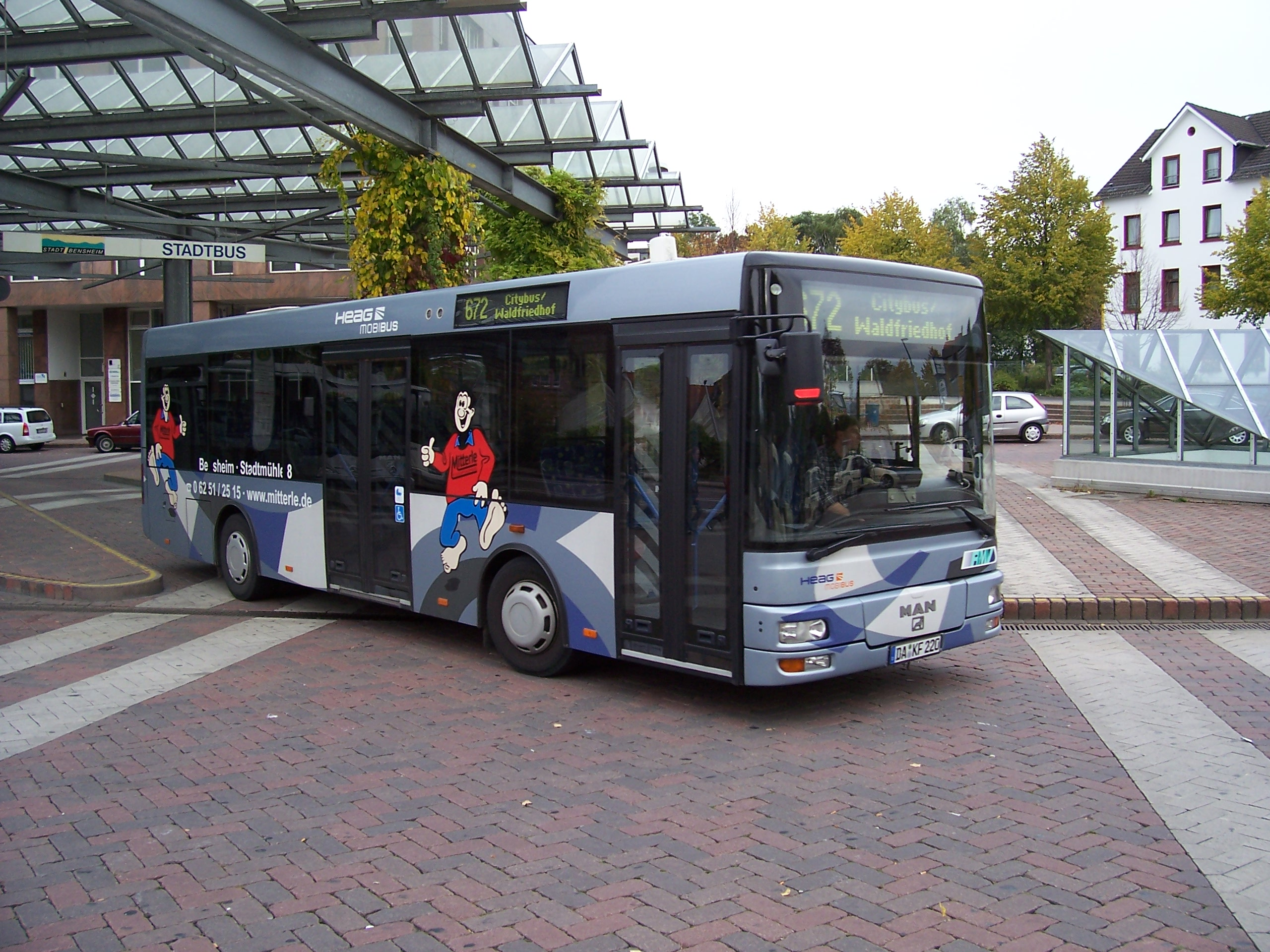 MAN NM 223 bus (reg. DA-KF 220) in Bensheim, Germany. HEAG mobiBus GmbH & Co. KG operator. My own photo from 26-sep-2005